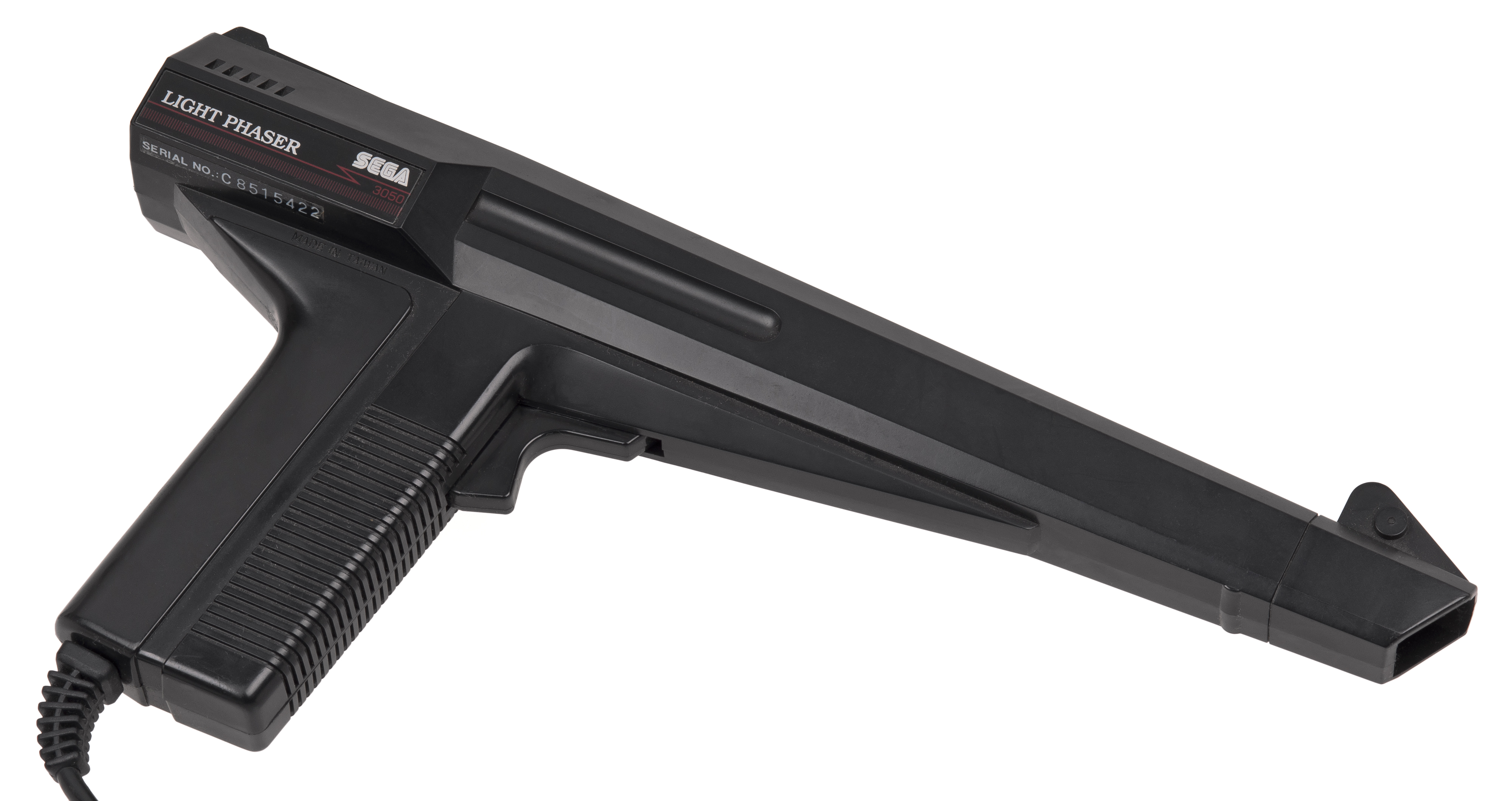 The Light Phaser light gun for the Sega Master System.